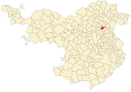 Vilamalla